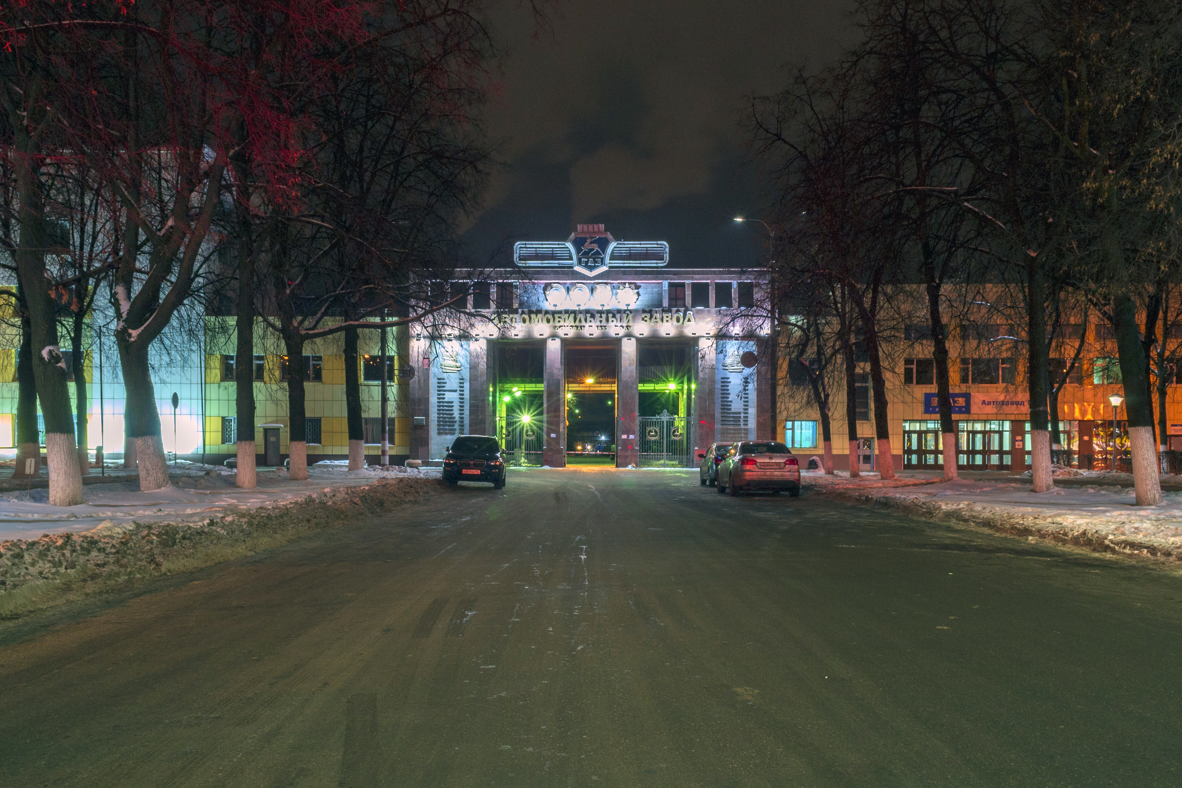 Gorky Automobile Plant. Main entrance